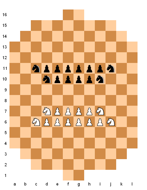 Camelot starting position; uses User:Cburnett's free-use image icons